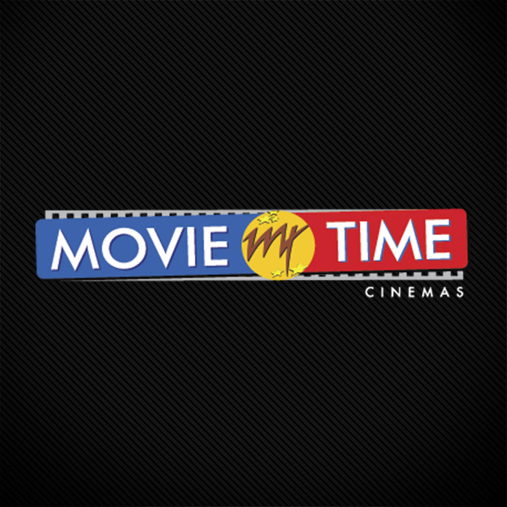 Movietime Cinema